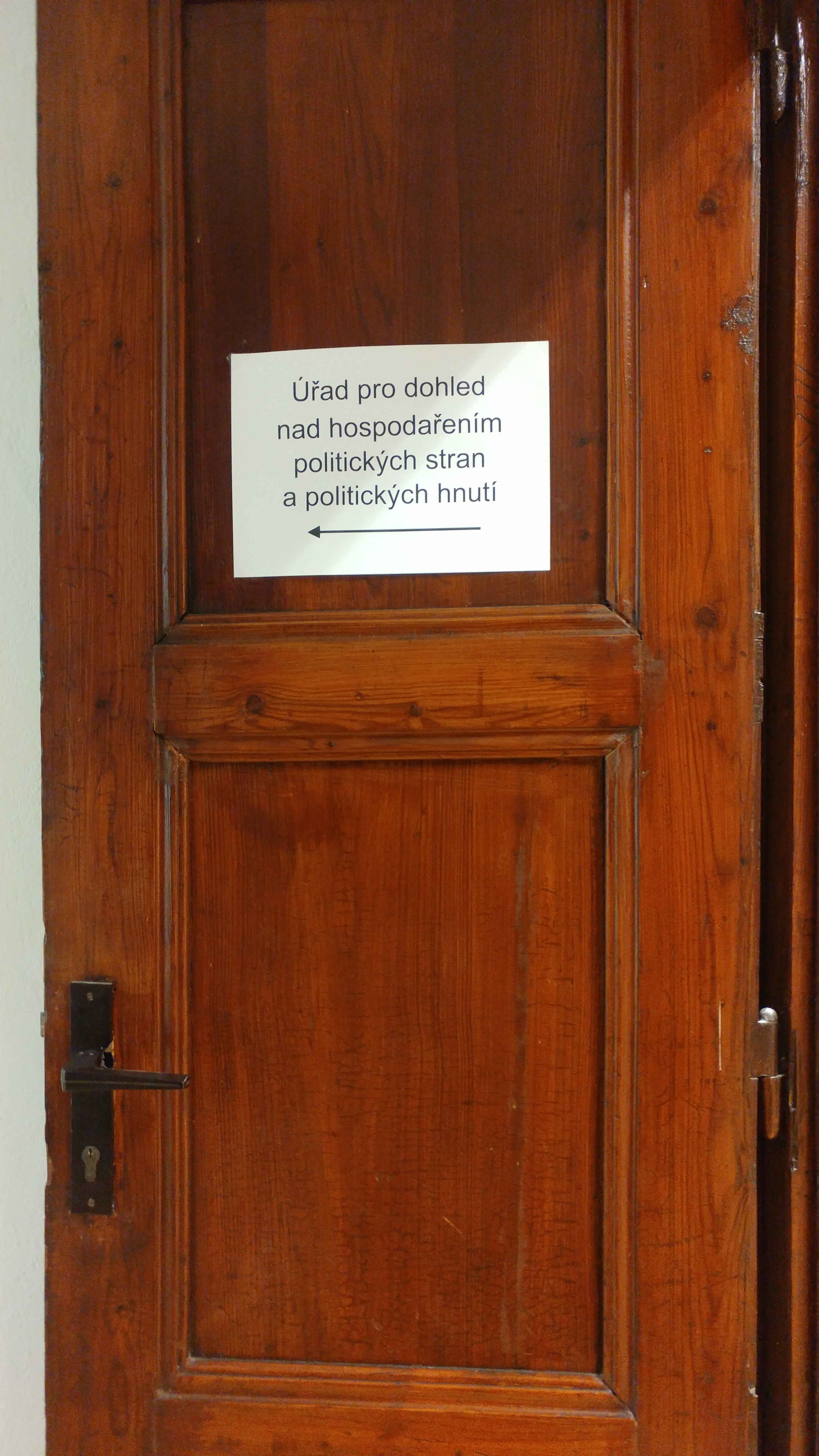 Office for Economic Supervision of Political Parties and Political Movements, Brno, Czech Republic